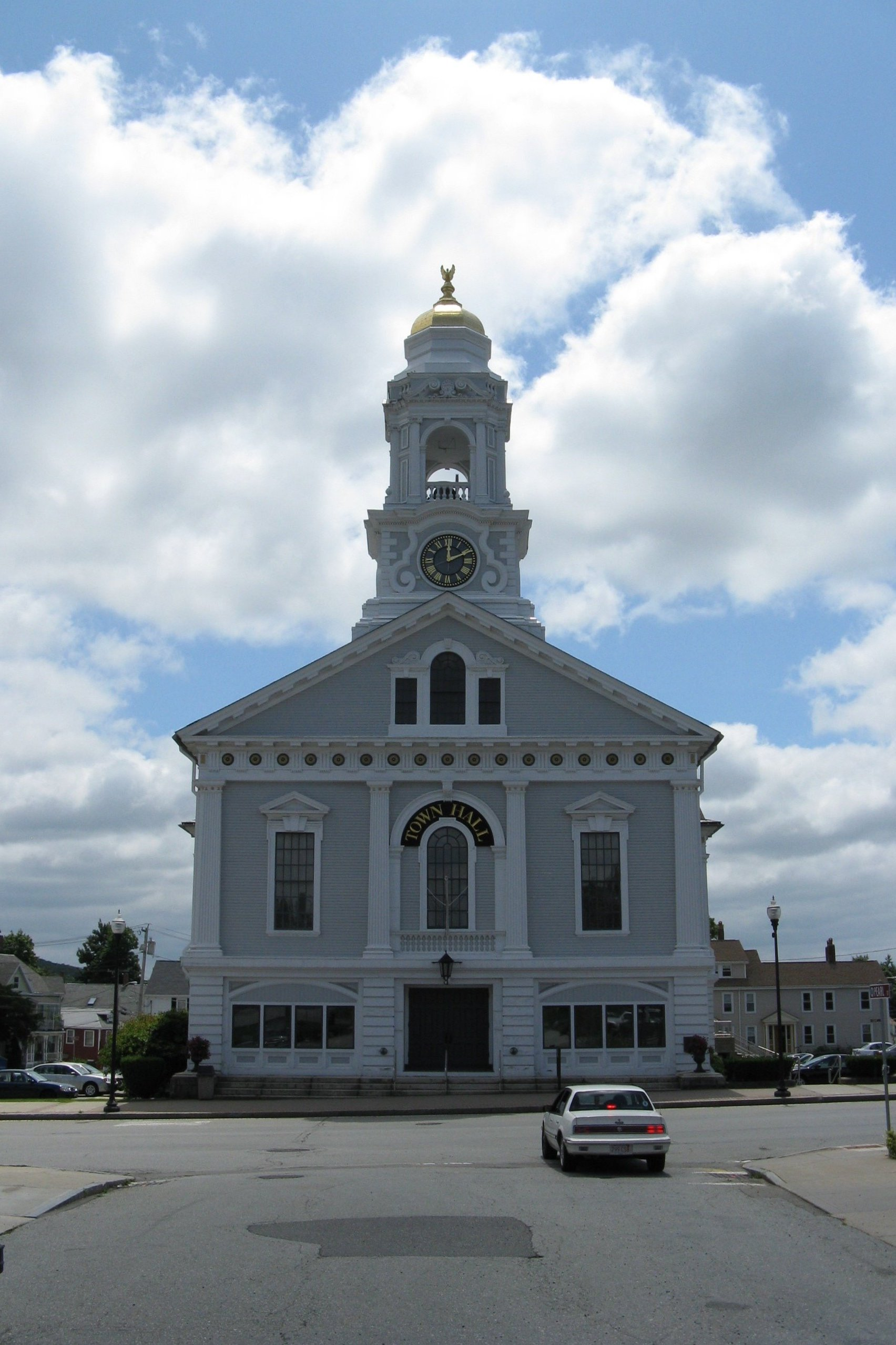 Milford Town Hall, Milford Massachusetts